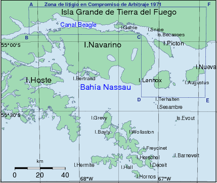 Map of the east side of the Beagle Channel